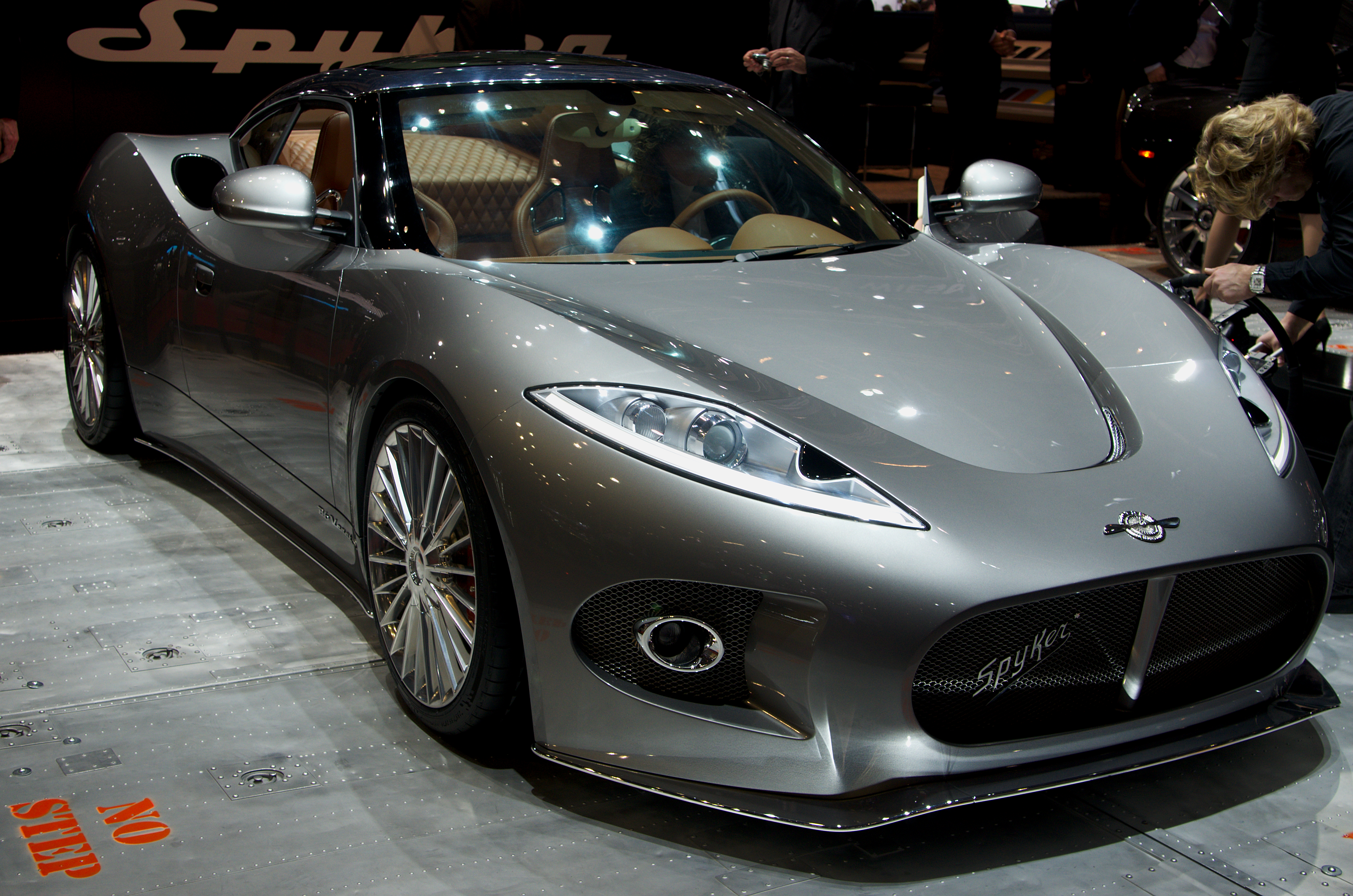 Geneva MotorShow 2013 - Spyker B6 Venator